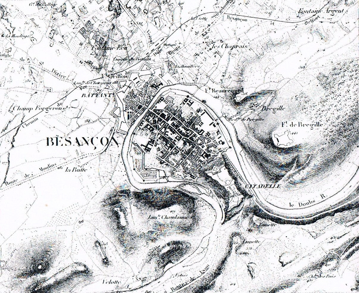 General plan of thefortress of Besançon; 19th century.